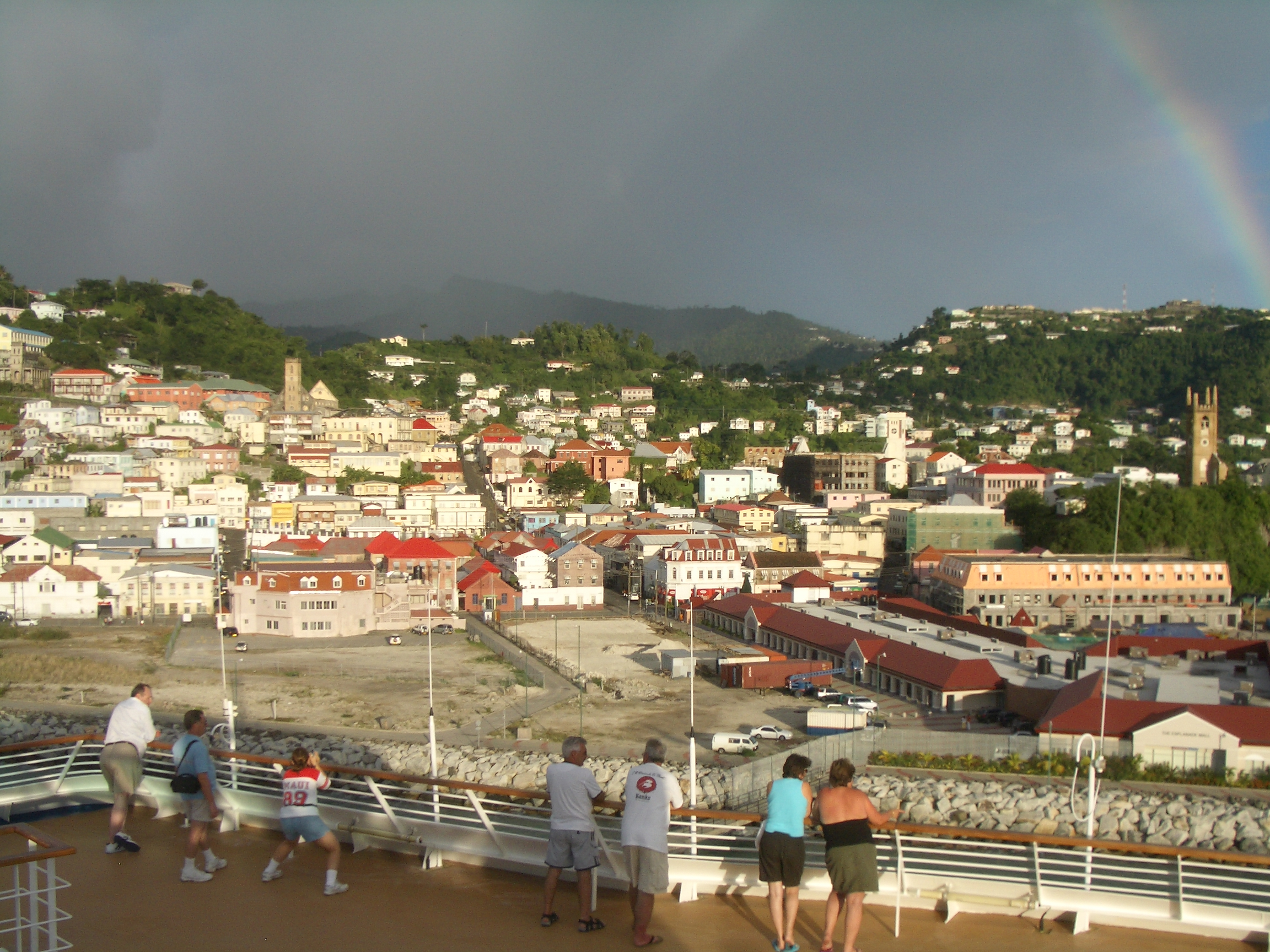 Depicted place: Saint George Parish